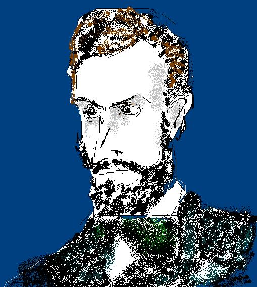 Marcel Mauss (10 May 1872 – 1 February 1950)